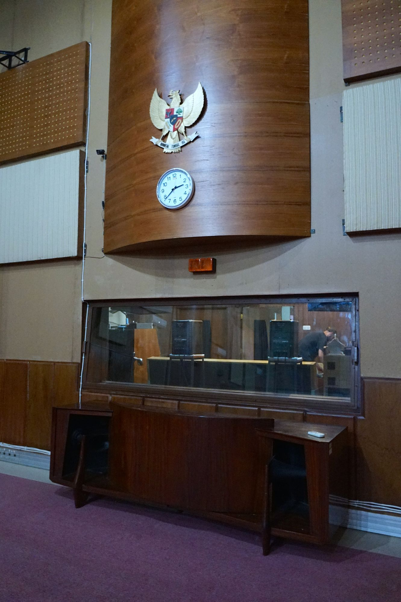 Inside Lokananta Studios, Solo, Indonesia